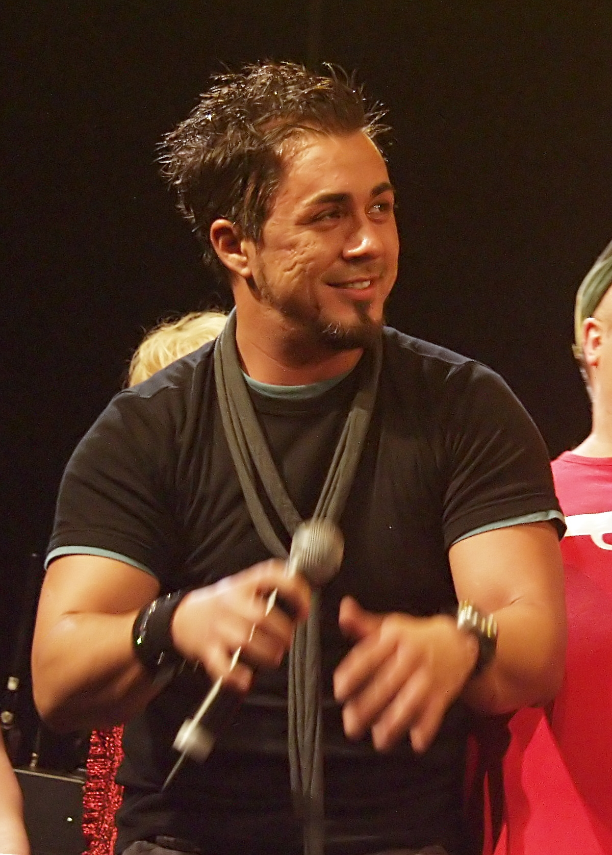 Mike Leon Grosch on the charity concert "Cover me" at E-Werk, Cologne, Germany.